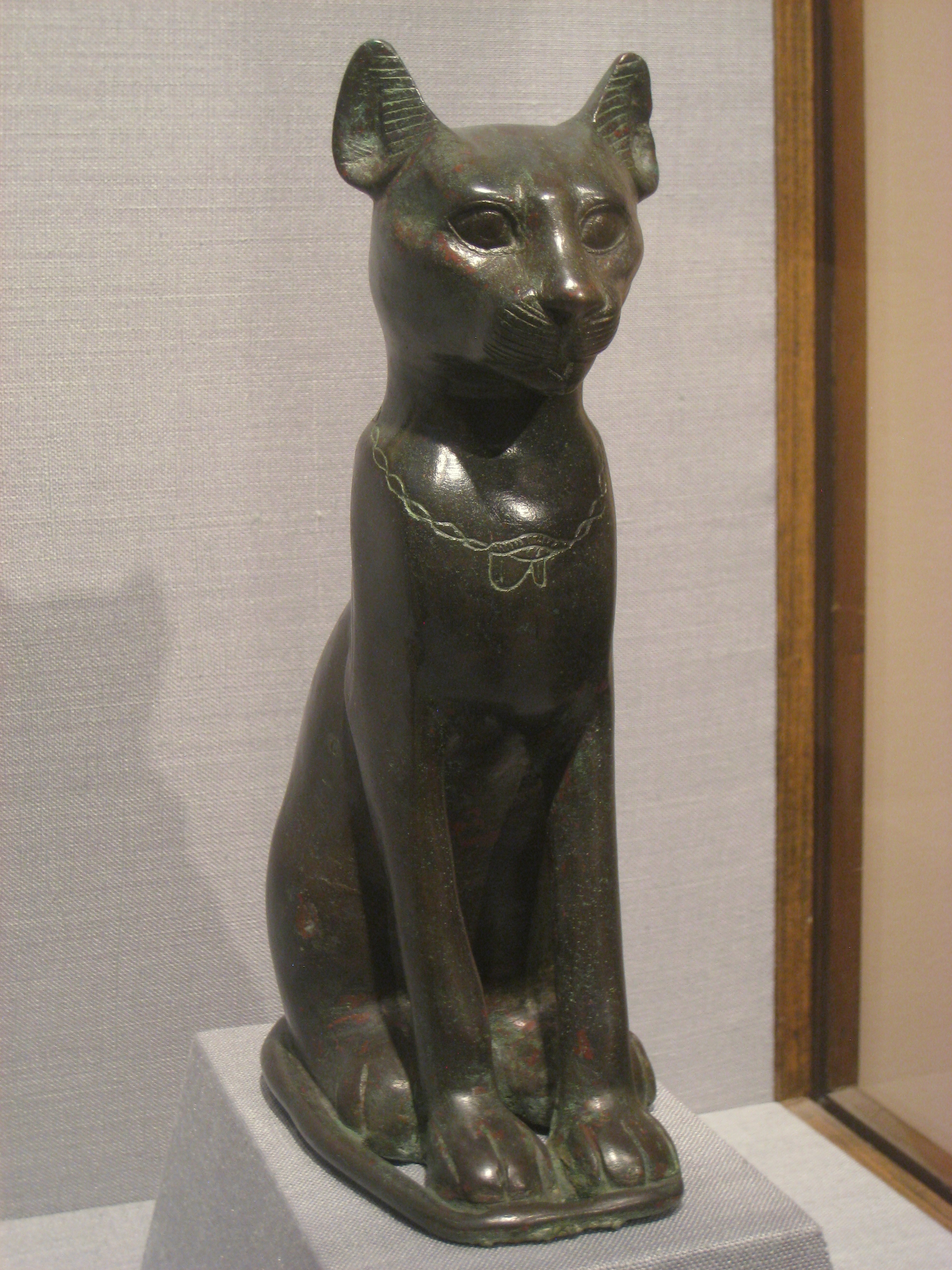 Cat, Eyptian Saite (663-525 BC), bronze, in the Worcester Art Museum, Worcester, Massachusetts, USA. The museum permits photography and does not restrict usage of the photographs.